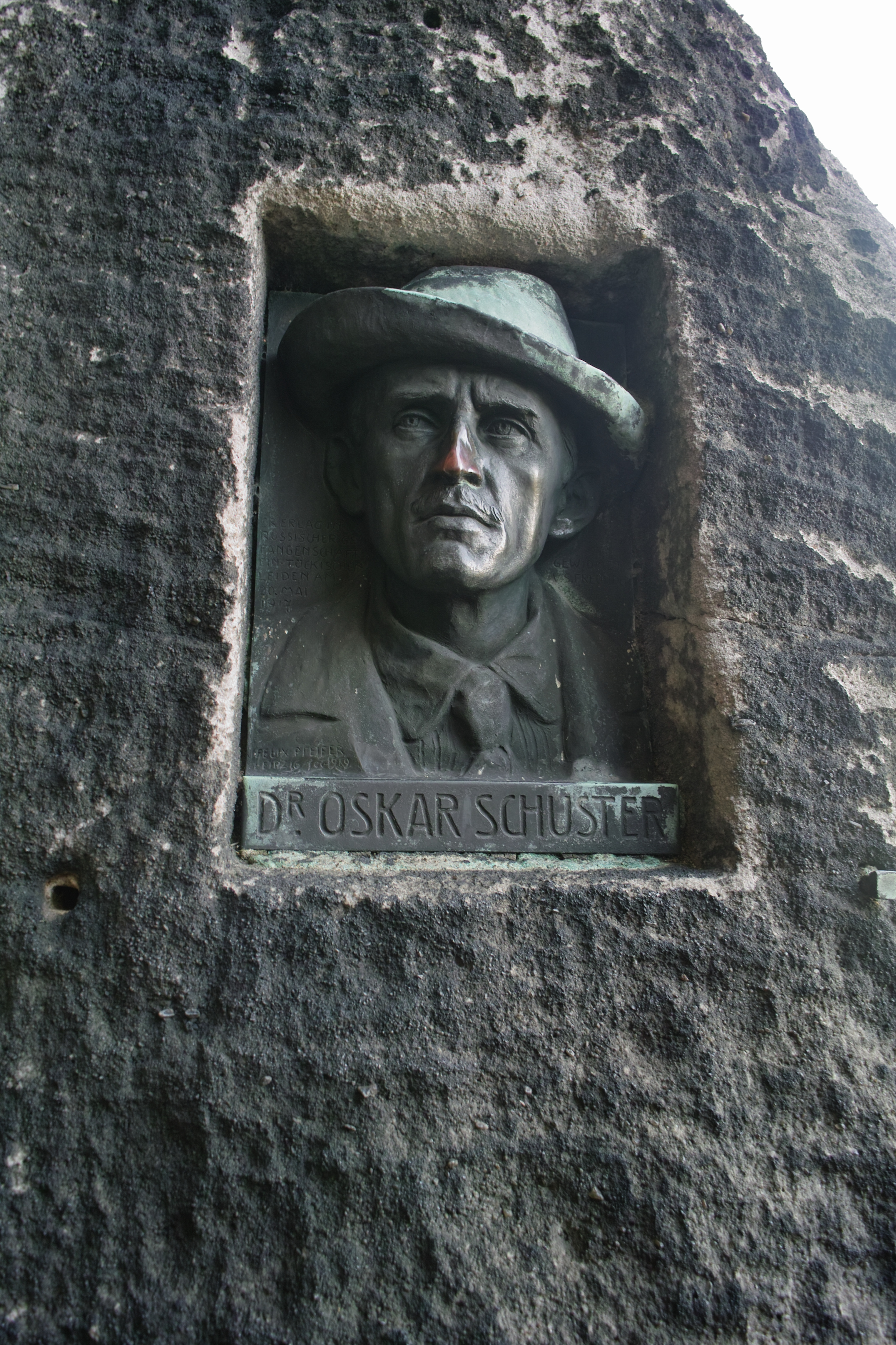 memorial of Dr. Oskar Schuster, build 1919, at the Falkenstein rock in Saxony Swiss; you could see this only if you could climb atleast the 3rd saxony difficulty grade